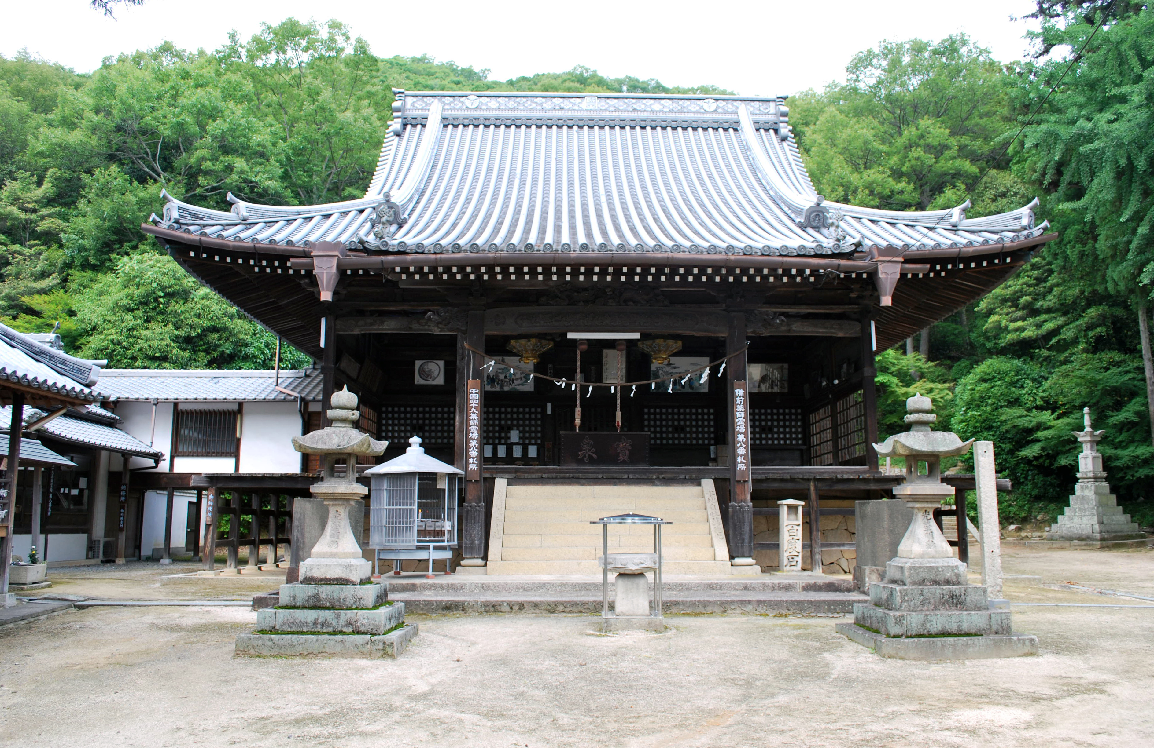 Main hall, Ontoku-ji